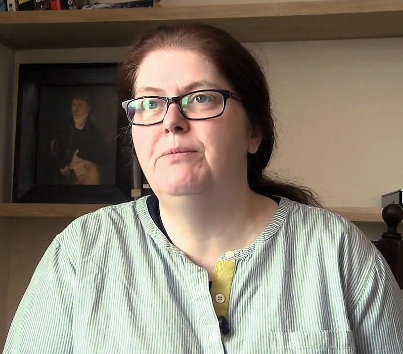 Eureka! Ambassadors - Sally Wainwright Sally Wainwright describes her first thoughts when visiting Eureka! with her children, and why children need to able to indulge their creativity.